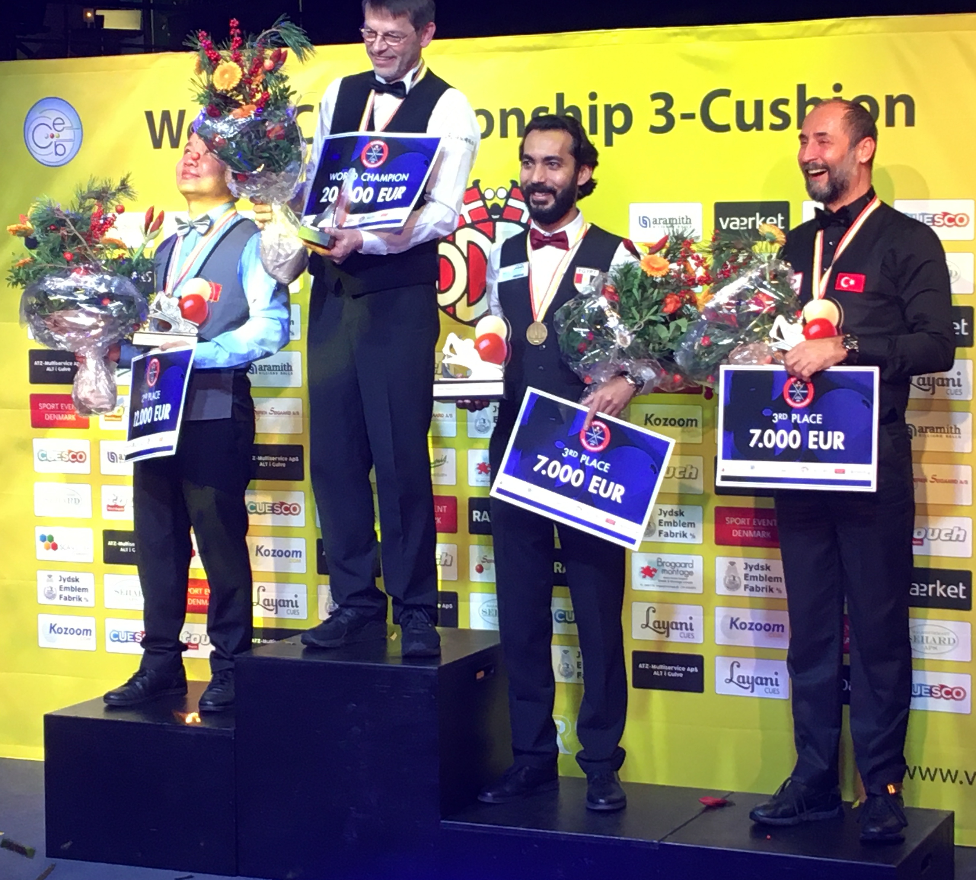 2019 World Three-cushion Championship-Award ceremony